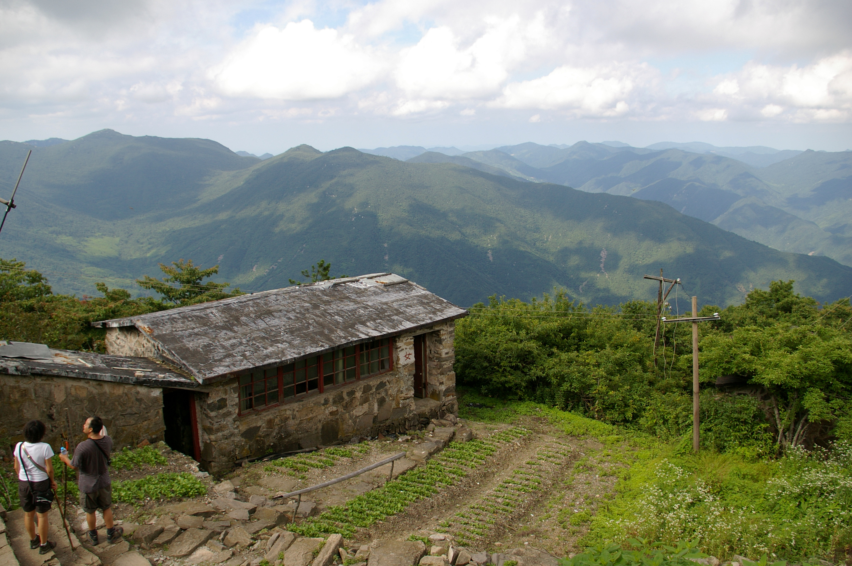 Mount Tianmu Park